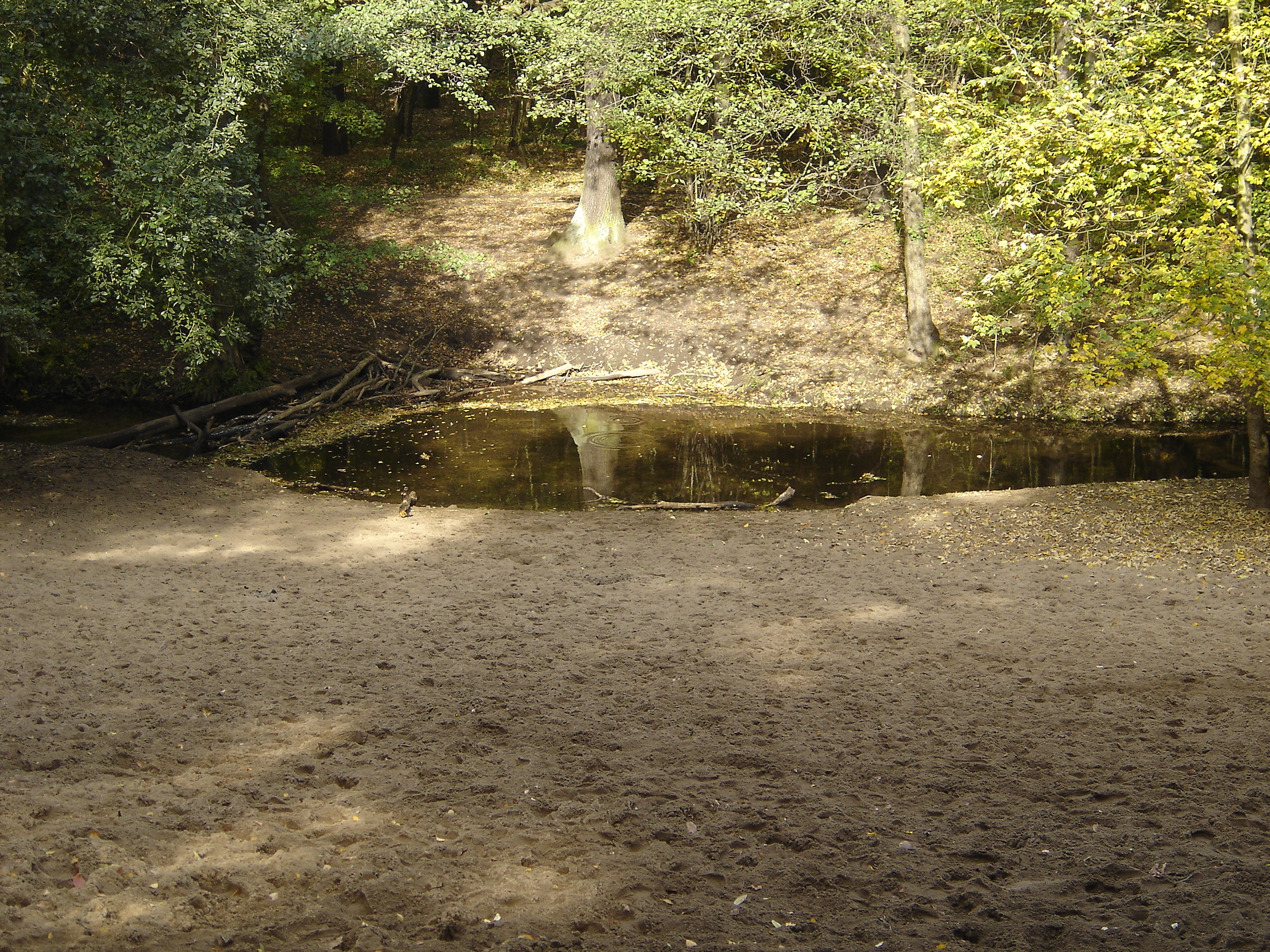 Priessnitz river in Alberstadt, Dresden